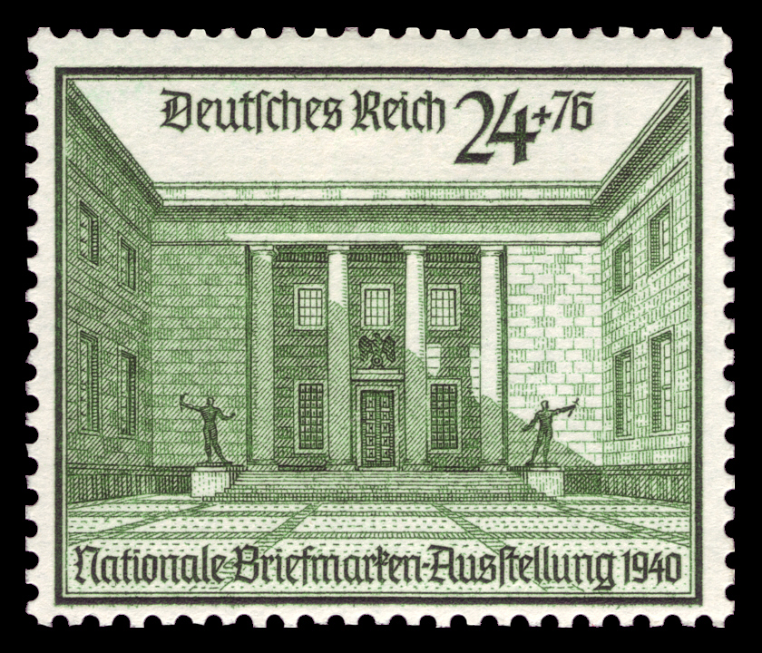 national stamp exhibition in Berlin Ausgabepreis: 24+76 Pfennig First Day of Issue / Erstausgabetag: 28. März 1940 Michel-Katalog-Nr: 743 (Deutsches Reich)